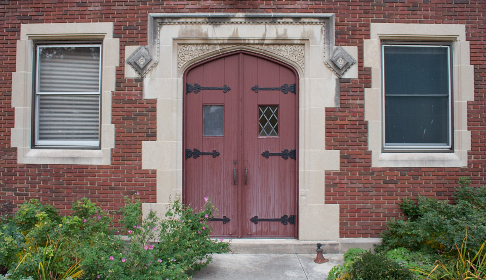 Francis Stuyvesant Peabody's Tudor Gothic mansion, taken at the Peabody Mansion Estate in Oak Brook, Illinois